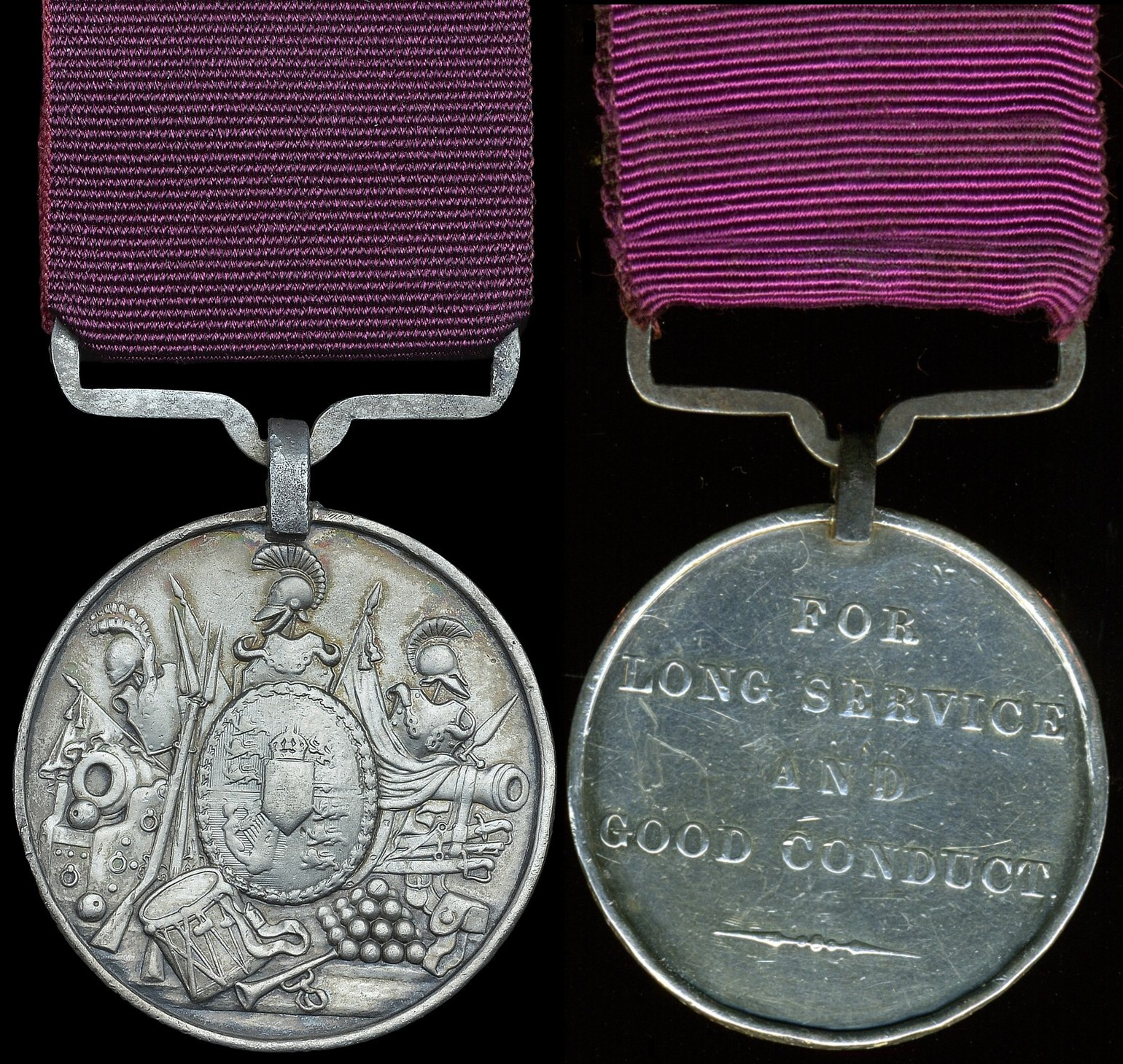 The King William IV version of the Army Long Service and Good Conduct Medal with a curved bar suspender